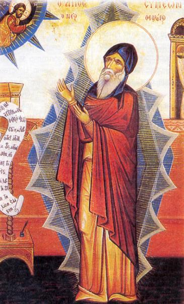 Symeon_the_New_Theologian (ortodox icon)